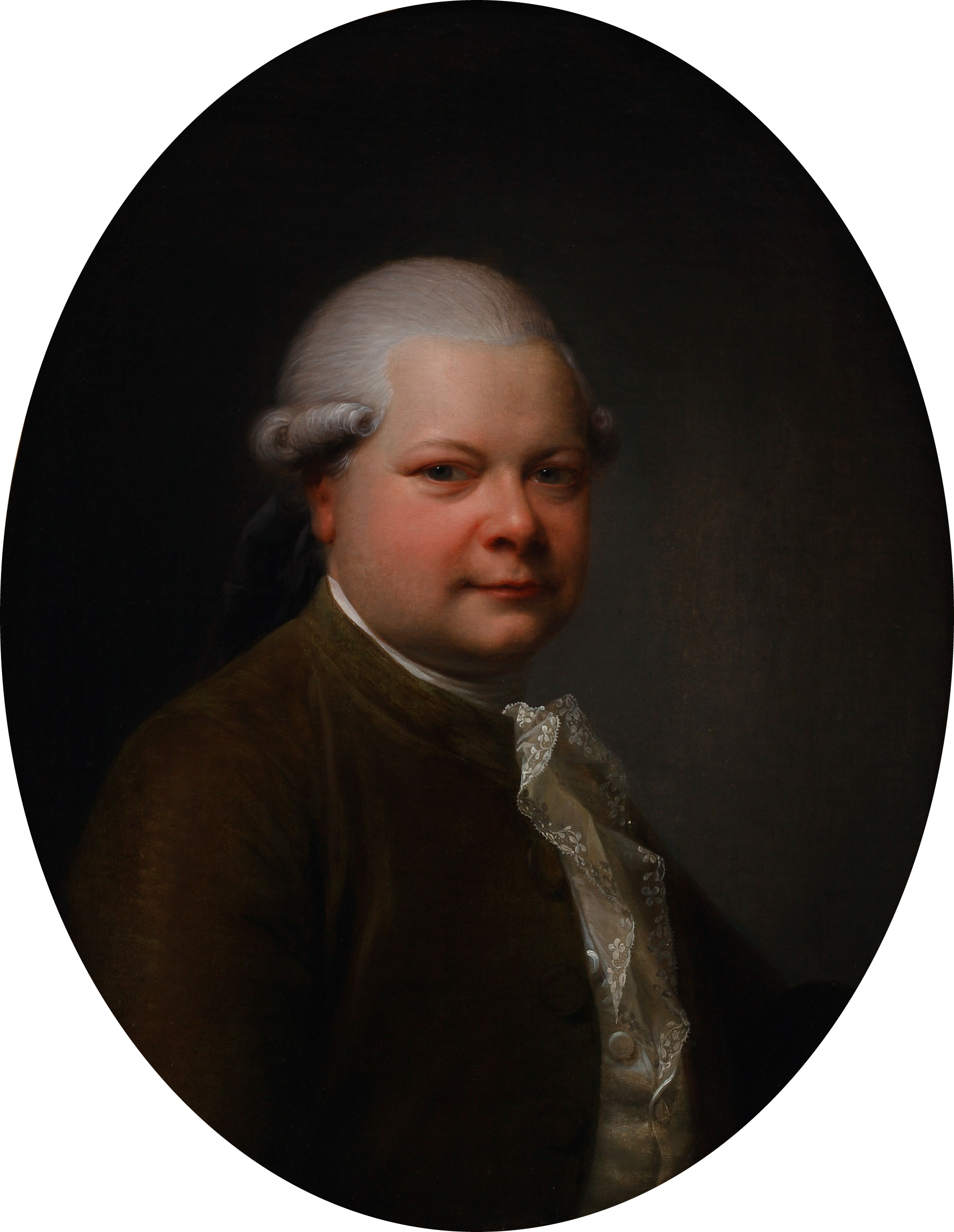 Johan Frederik Lindencrone, Danish nobleman, landowner and chamberlain